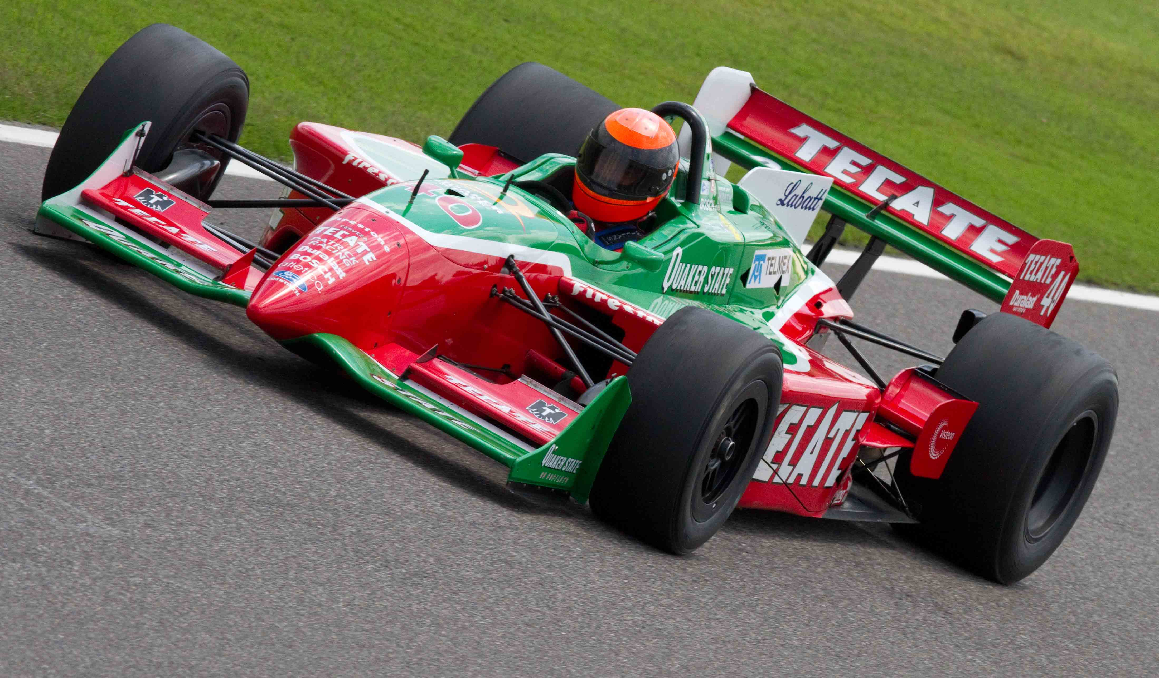 An ex-Patrick Racing, Adrian Fernandez Reynard Champ Car at the 2010 Barber Motorsports Park Legends of Motorsport historic racing event.